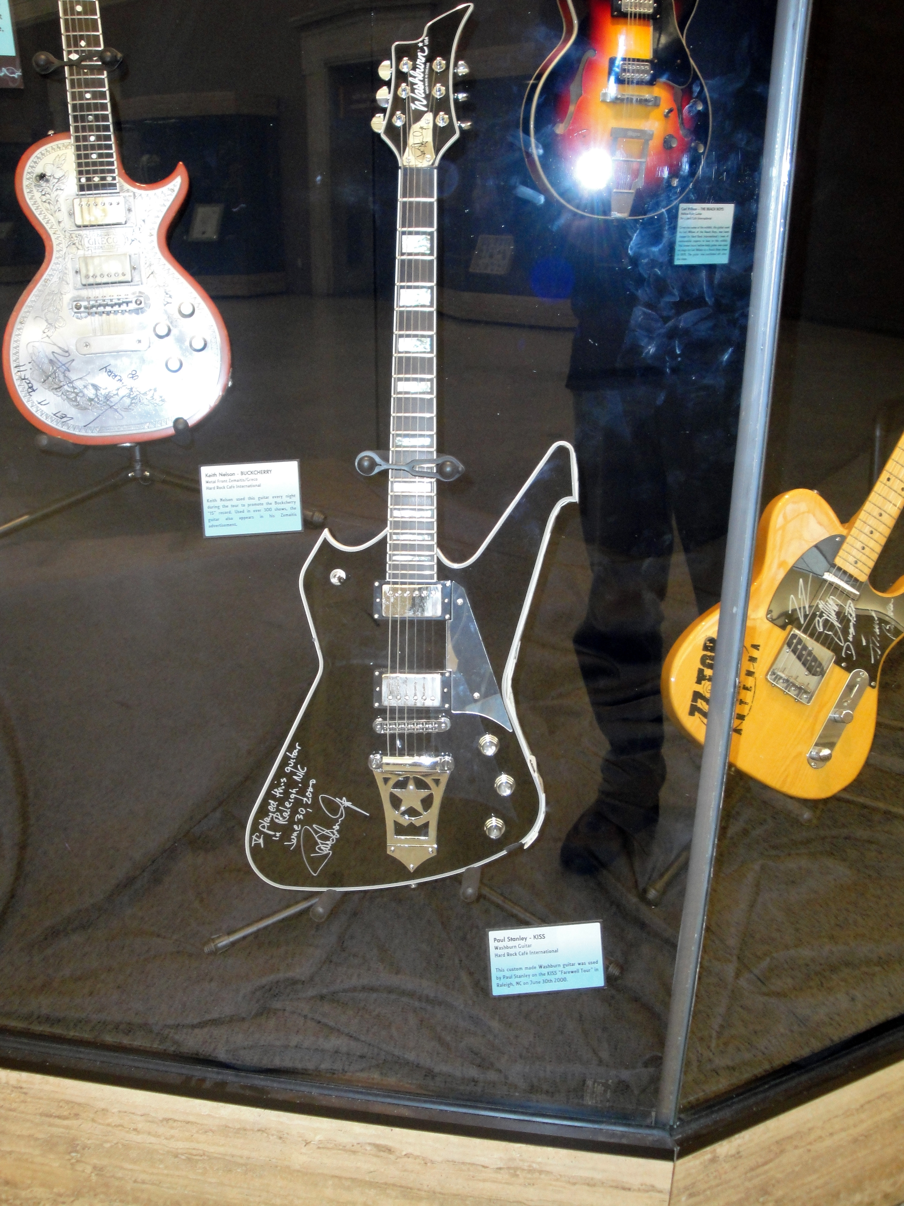 left to right Keith nelson (Buckcherry) / Metal Franz Zemaitis/Greco Paul Stanley (KISS) / Washburn Carl Wilson (The Beach Boys) / Emprrador E-200 (Kawai Teisco) — used on a Beach Boys Show on March 25, 1979 ZZ Top / Telecaster